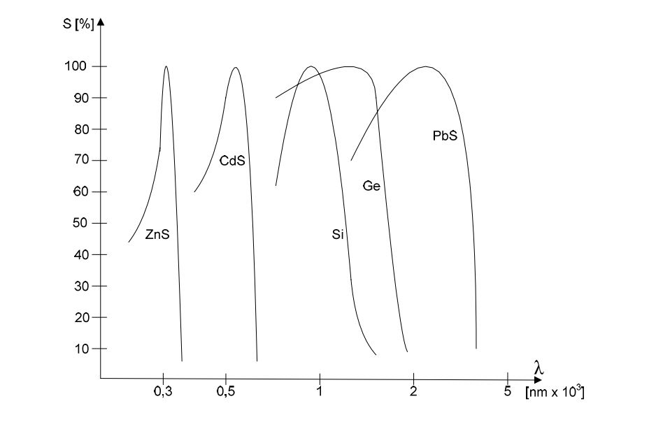 Spectral characteristics of selected photoresistive materials